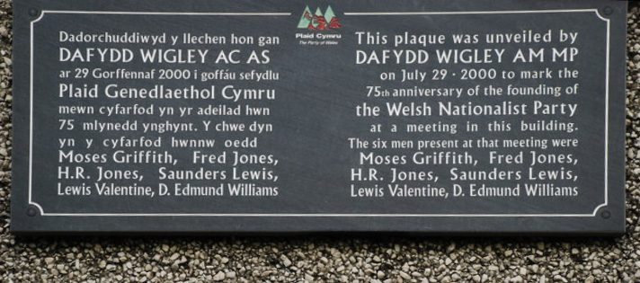 Penblwydd Plaid Cymru Anniversary. This plaque on the side of 346045 commemorates the 75th anniversary of Plaid Cymru.